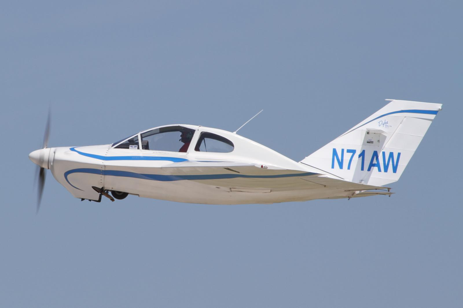 Dyke Delta JD2 (N71AW)